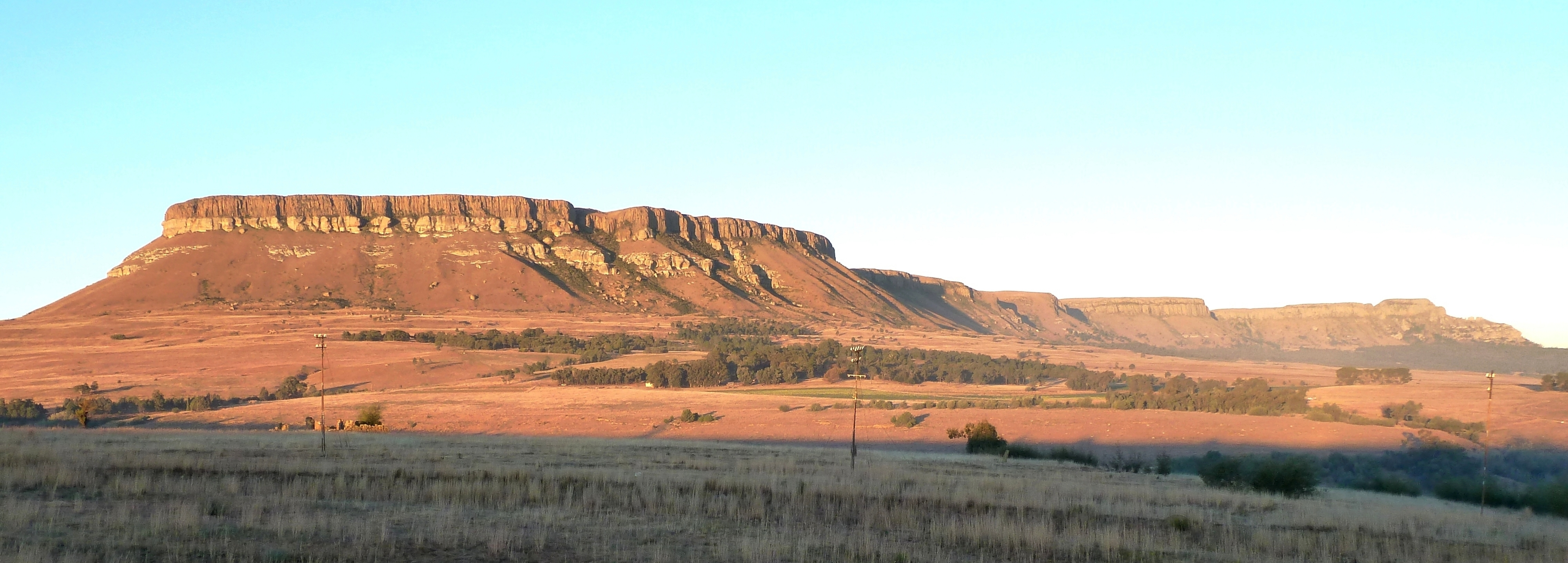 Platberg as seen from the N3 freeway north of Harrismith, Free State, South Africa